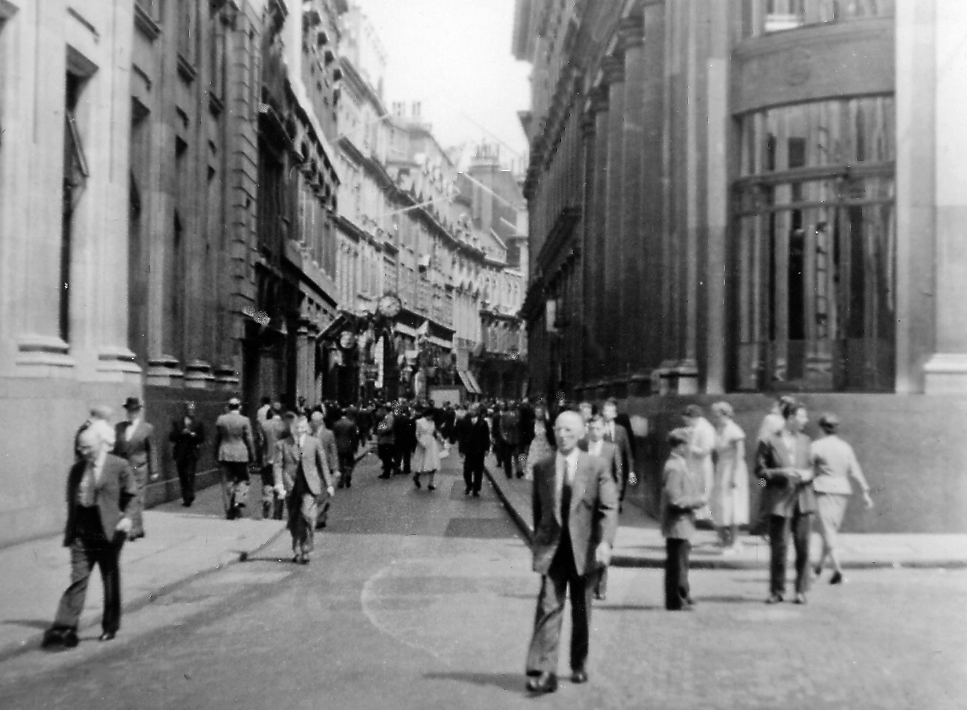 Throgmorton Street, outside the Stock Exchange, Summer 1955. Central confines of The City.